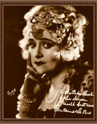 Publicity photo of Fontaine La Rue from The Blue Book of the Screen by Ruth Wing, editor